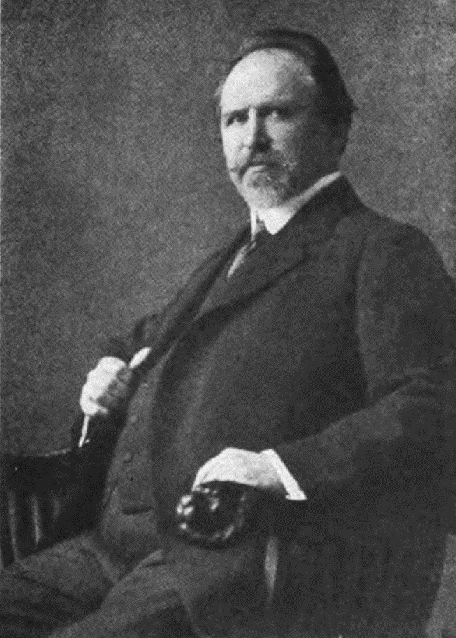 Picture of Adam Müller-Guttenbrunn